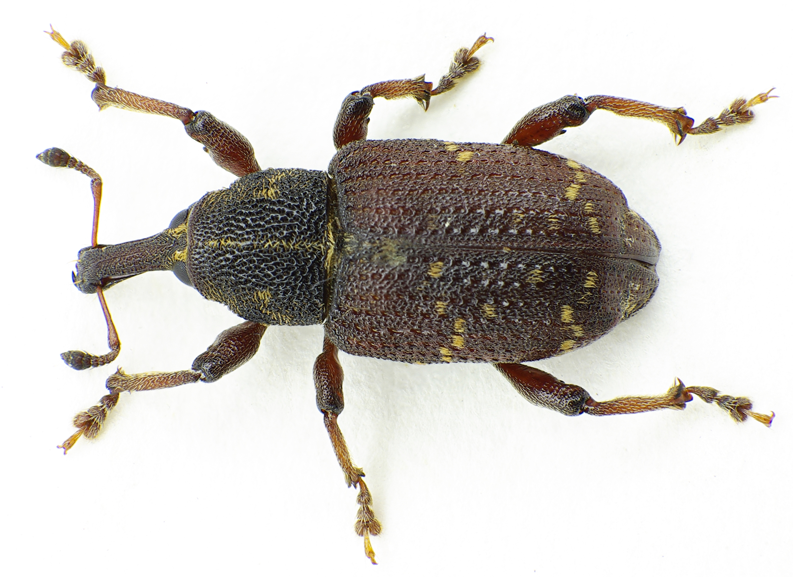 Hylobius abietis from pupa, that I found in South France in Mongagne Noir about 40 km northnorthwest of Carcassone at 2013-09-05 in the wood of Abies alba